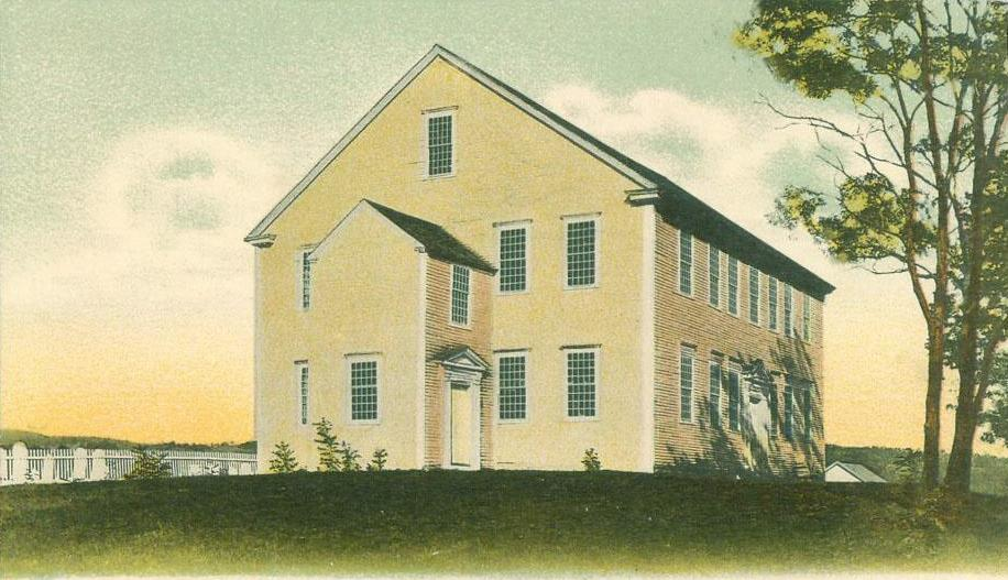 Old Rockingham Meeting House, Rockingham, Vermont; from a c. 1908 postcard published by Fuller's Pharmacy, Bellows Falls, Vermont. It was built in 1787-1801.